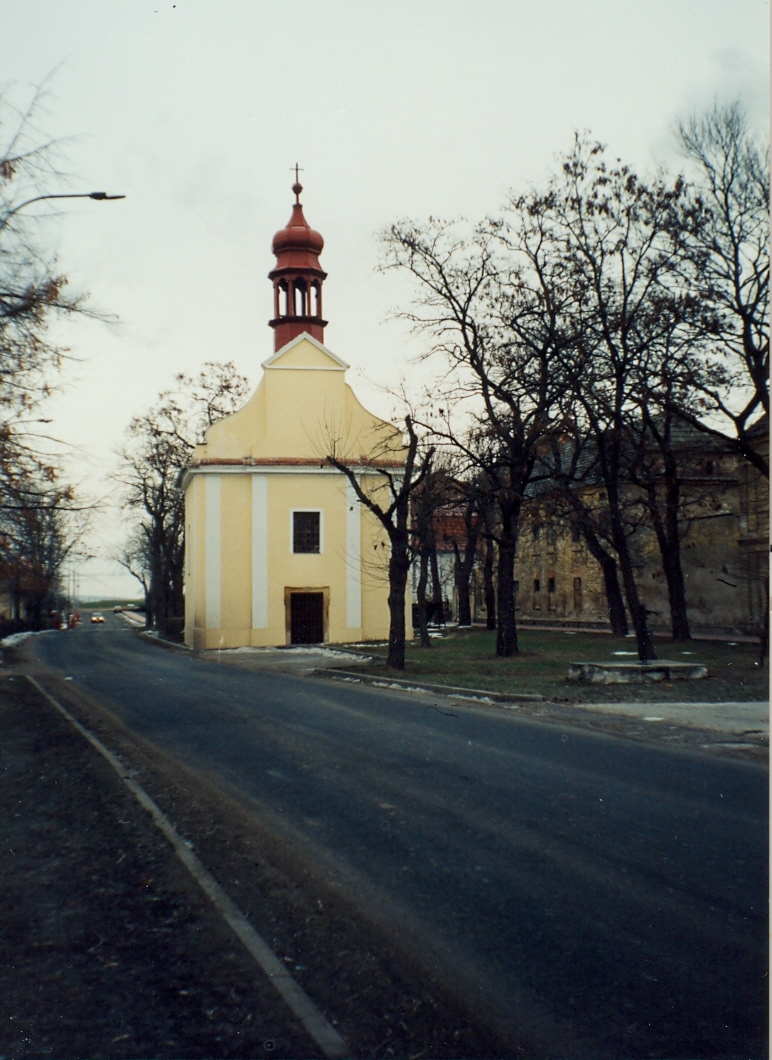 Saint Anne Chapel in Počerady from 1720